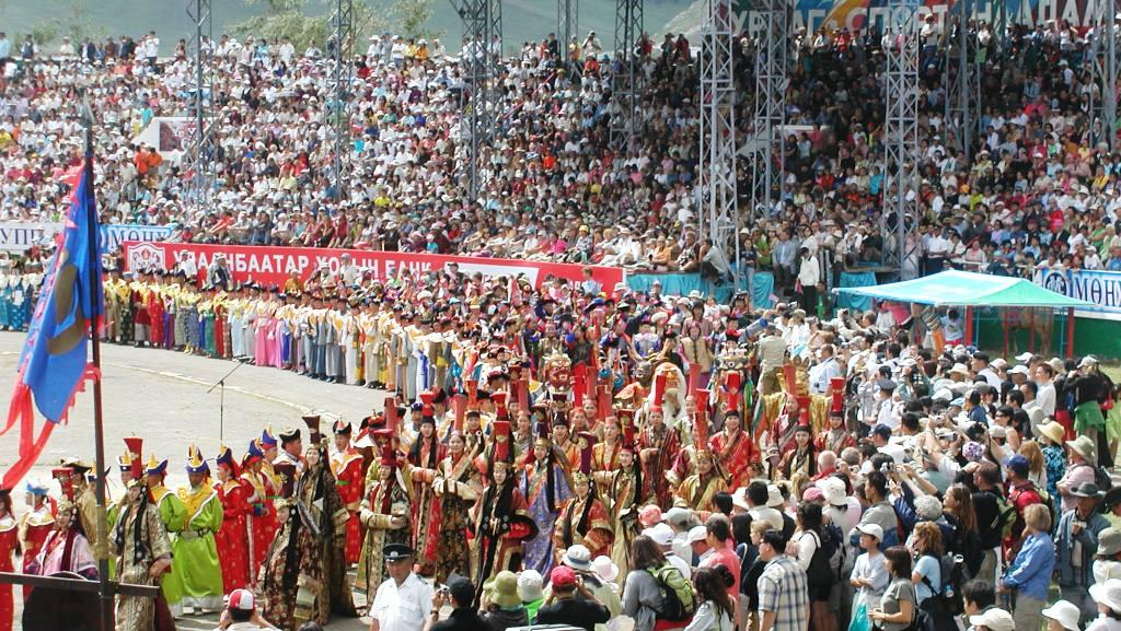 Naadam Festival, Ulaanbaatar, Mongolia